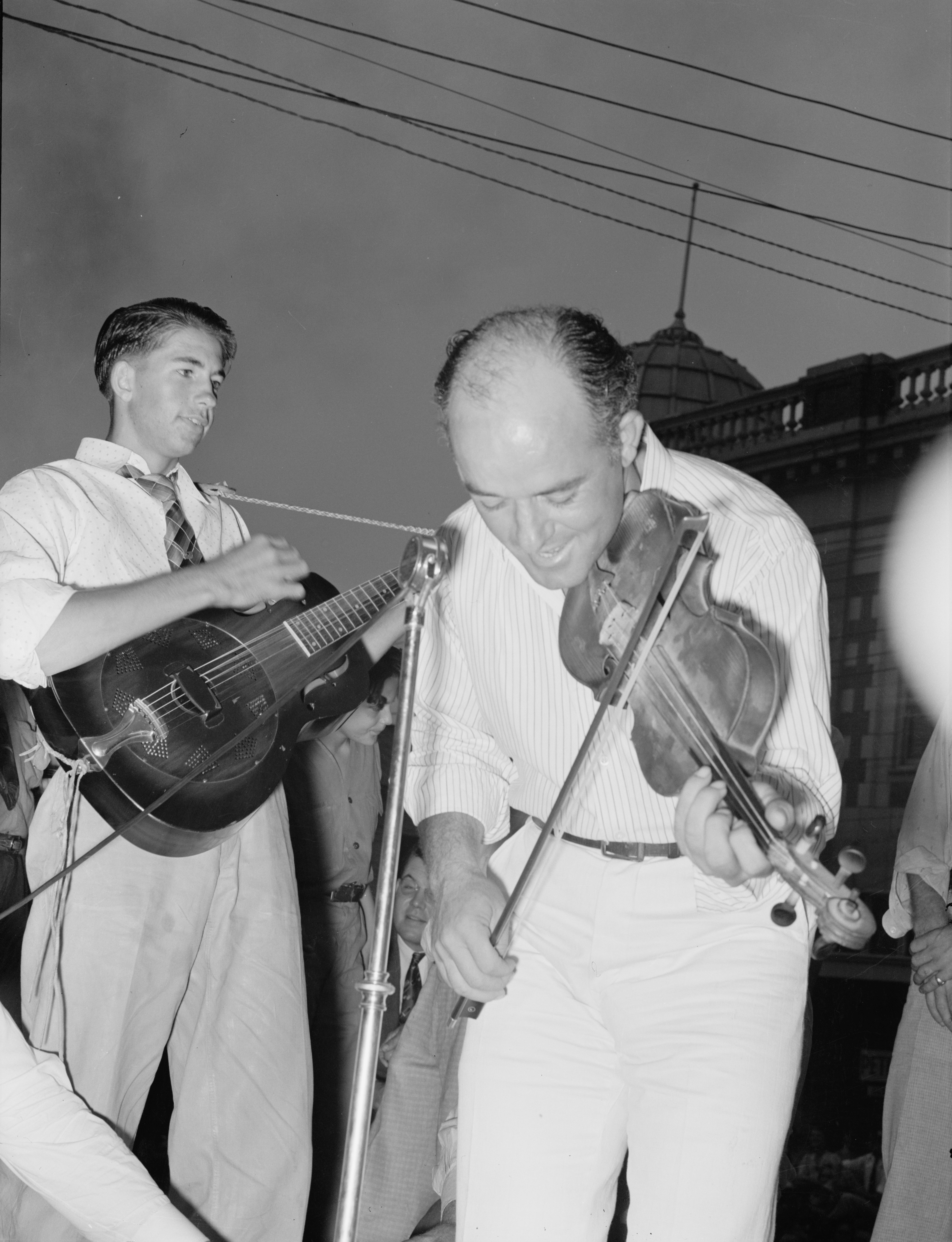 "Musicians in Cajun band contest, National Rice Festival, Crowley, Louisiana. Most of the music was of the folk variety accompanied by singing." 1938. Shown are musicians playing violin and steel guitar.